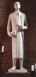 Joseph